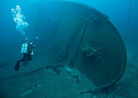 Steamer NORMAN